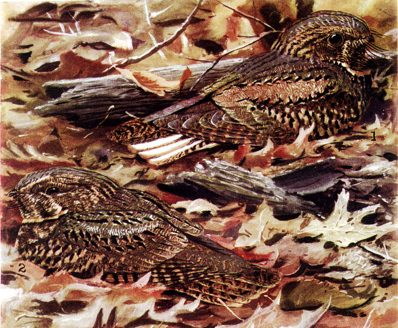 Chuck-will's-widow Caprimulgus carolinensis, male (upper), female (lower), offset reproduction of watercolor